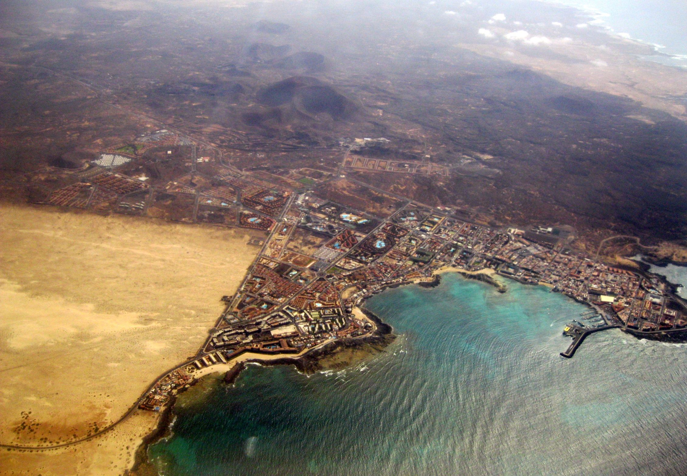 Corralejo from Plane